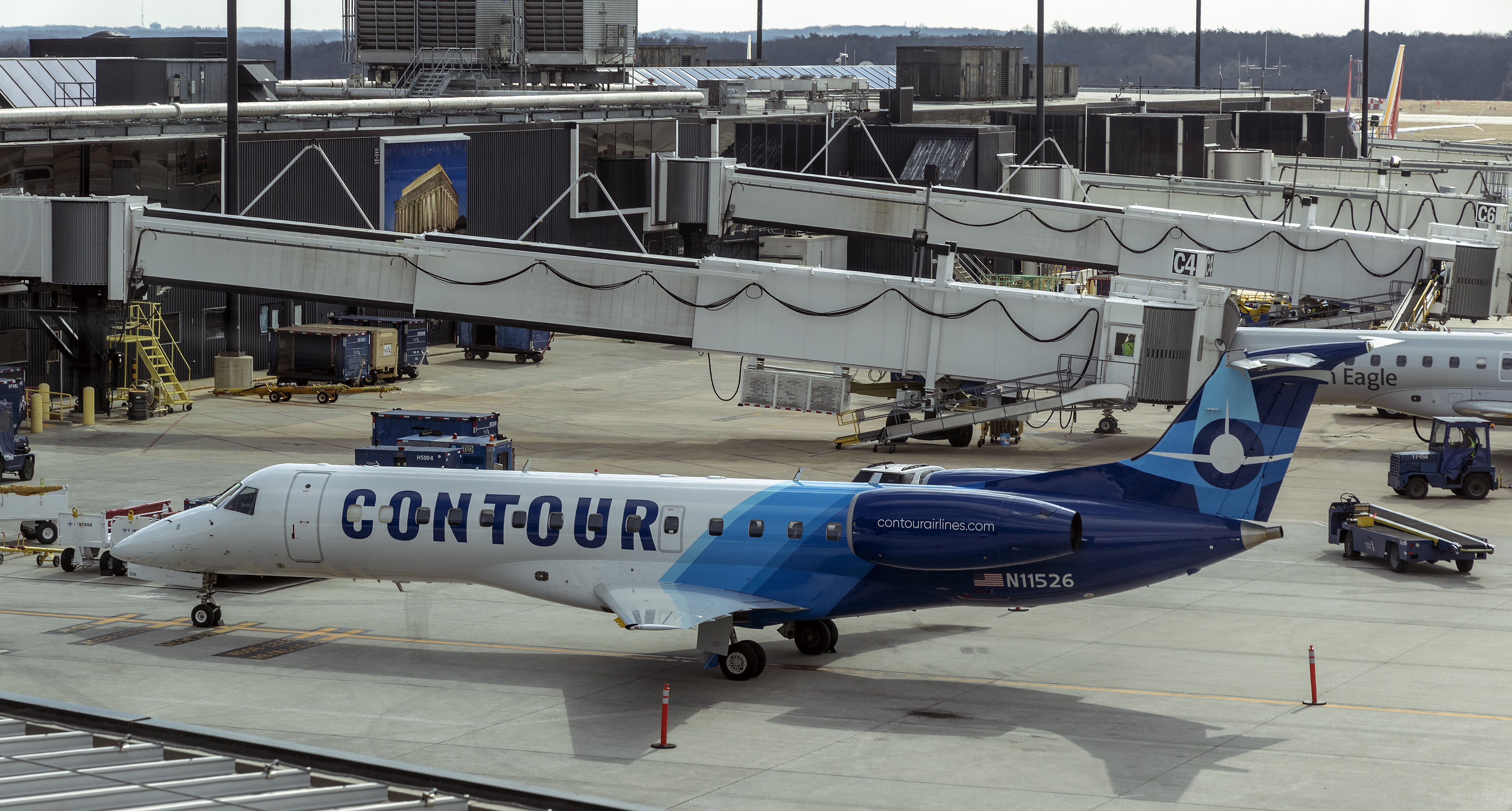 Embraer ERJ-135LR N11526 of Contour Airlines at Baltimore-Washington International Airport (BWI), Maryland, USA